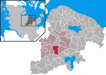 This map shows the area of the Gemeinde (municipality) Kühren in the Kreis (district) Plön, Schleswig-Holstein, Germany.